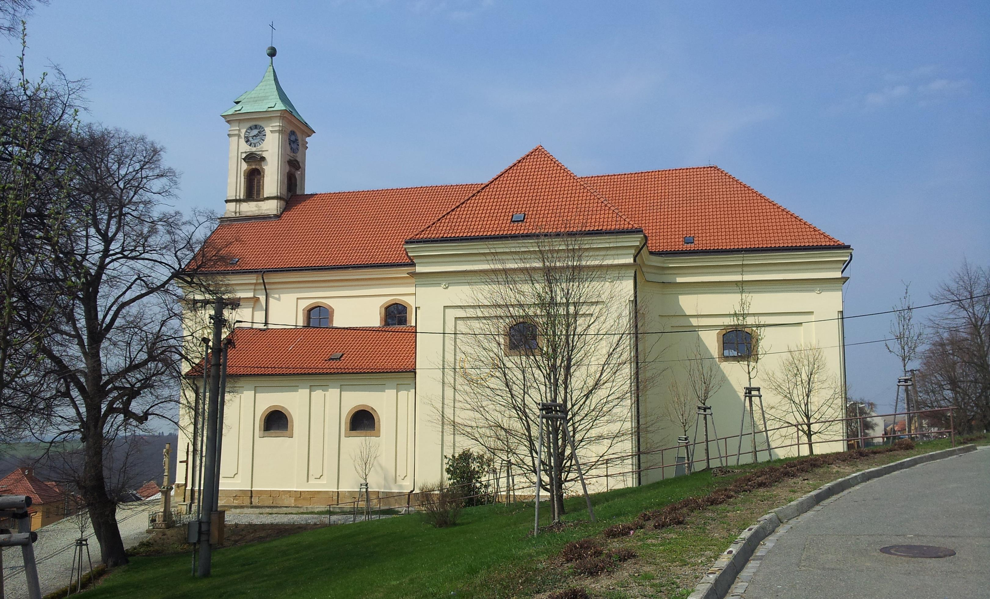 Velký Ořechov, Zlín District, Czechia.